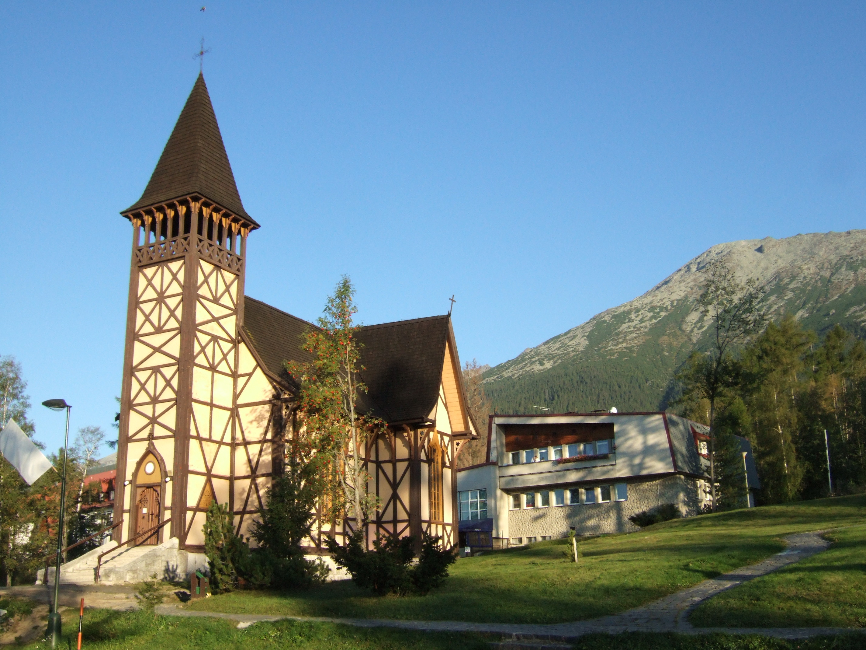 One of only a couple of churches in Starý Smokovec. by me.